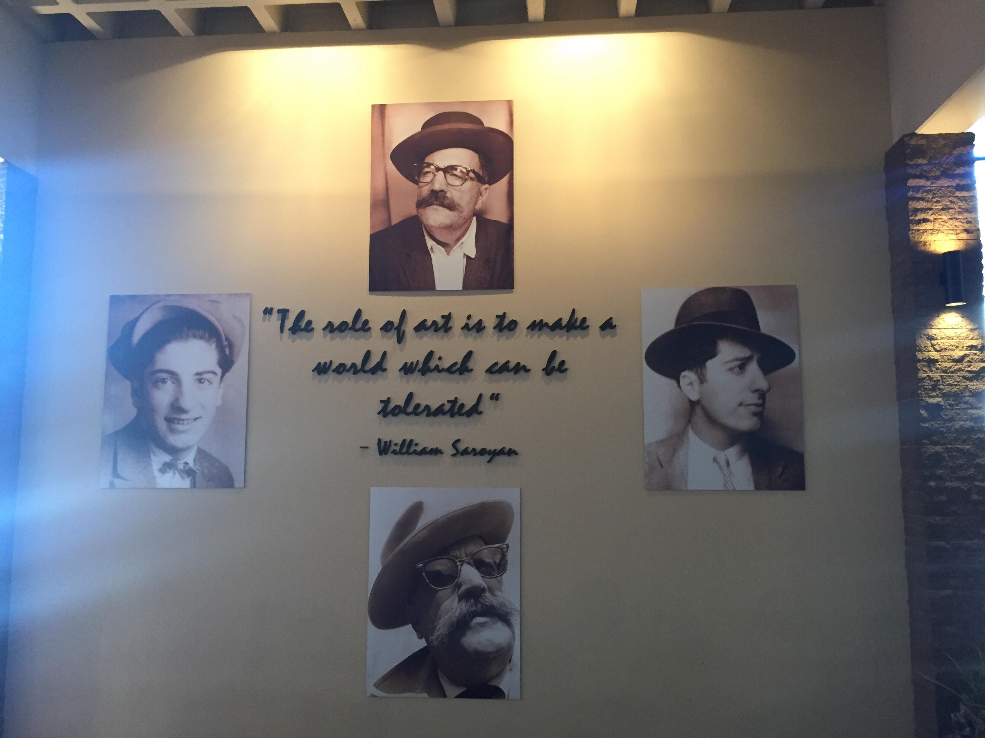 Grand Foyer of William Saroyan's Theatre